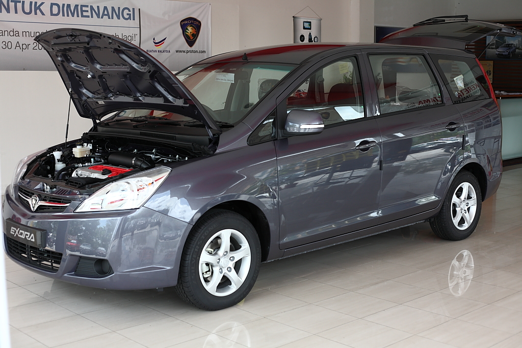 A Proton Exora on display at a Proton showroom with engine hood cover open.